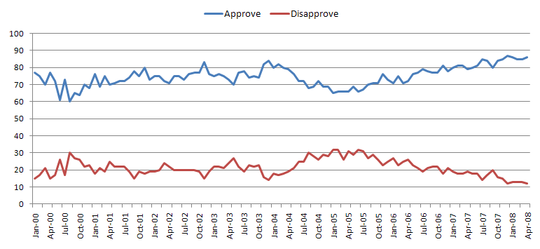 Approval ratings of Vladimir Putin during his two full terms according to Levada Center polling data. [1] [2]